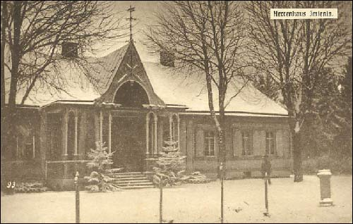 Wooden manor of the Novomeisky family in the village Imenin near Kobryn (today in Belarus). Photo by unknown German WW1 solder (ca. 1915-1918). The building did not survive.